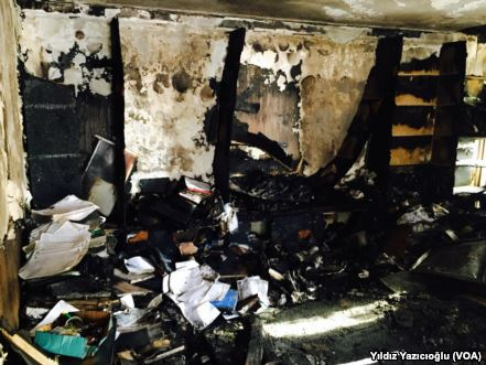 Fire damage caused by nationalist protestors at the HDP headquarters archives department.